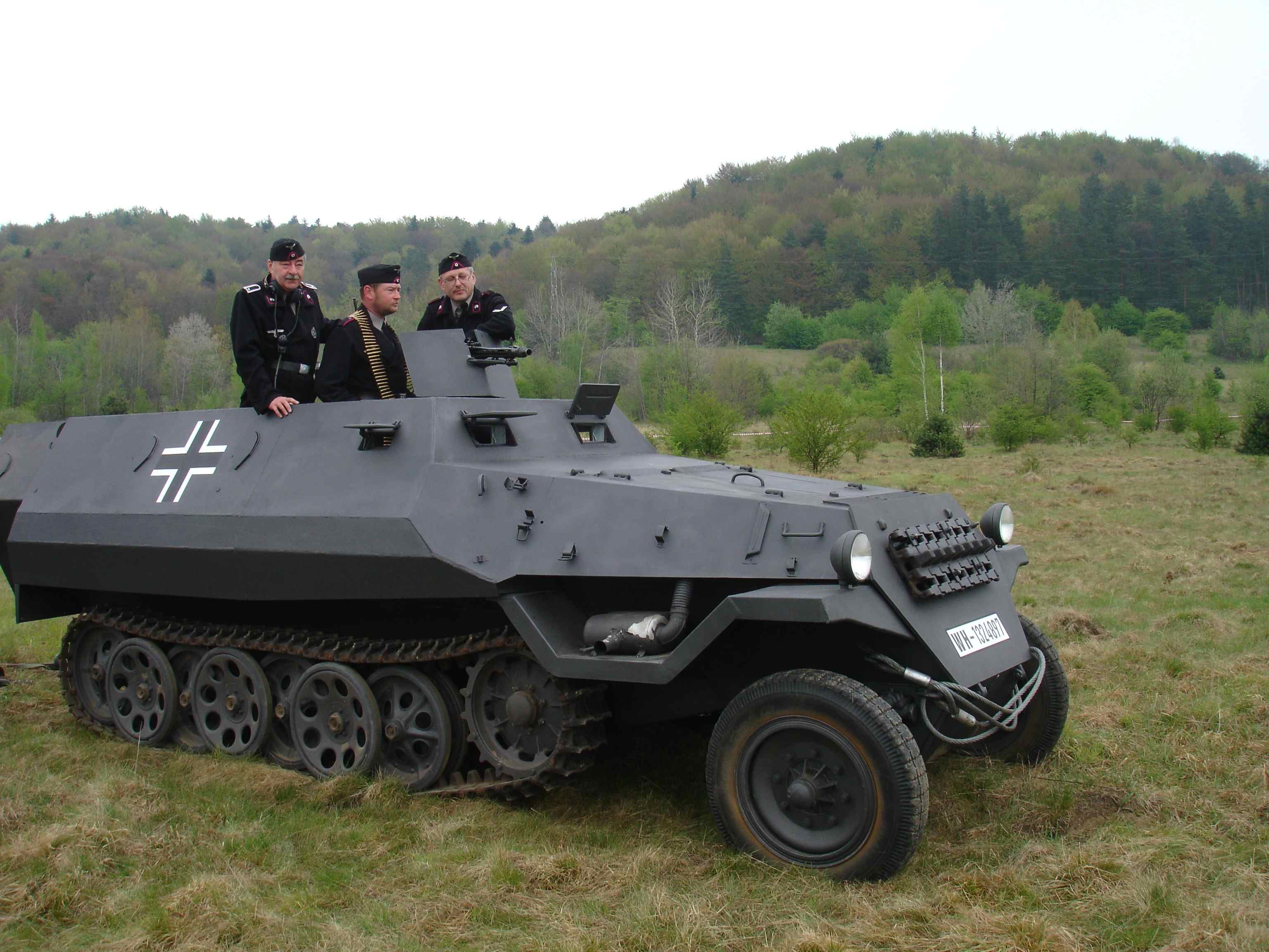 OT-810 armoured personnel carrier disguised as German SdKfz.251 in Sanok , Poland